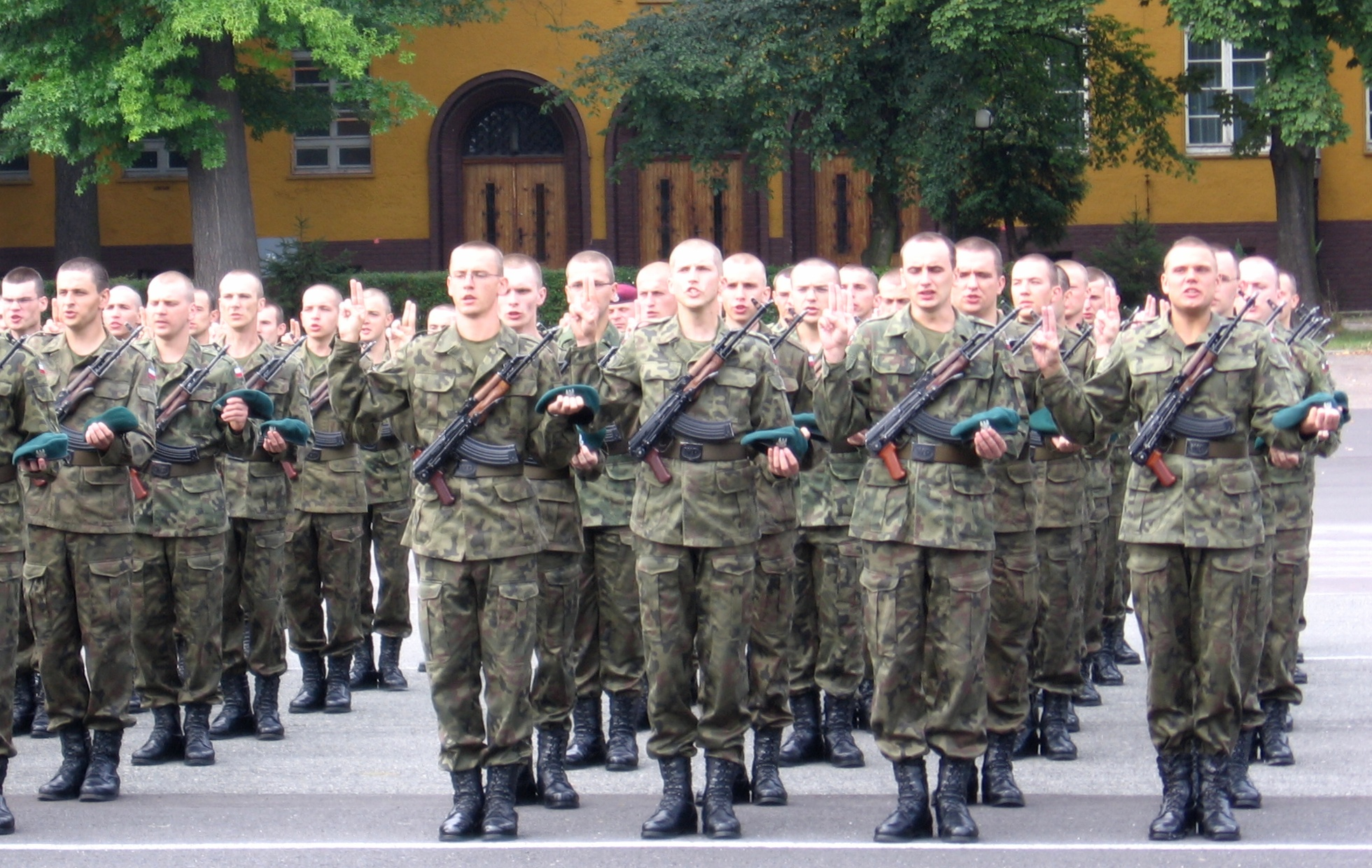 Polish Recruits of Land forces officers´s high school during military oath.